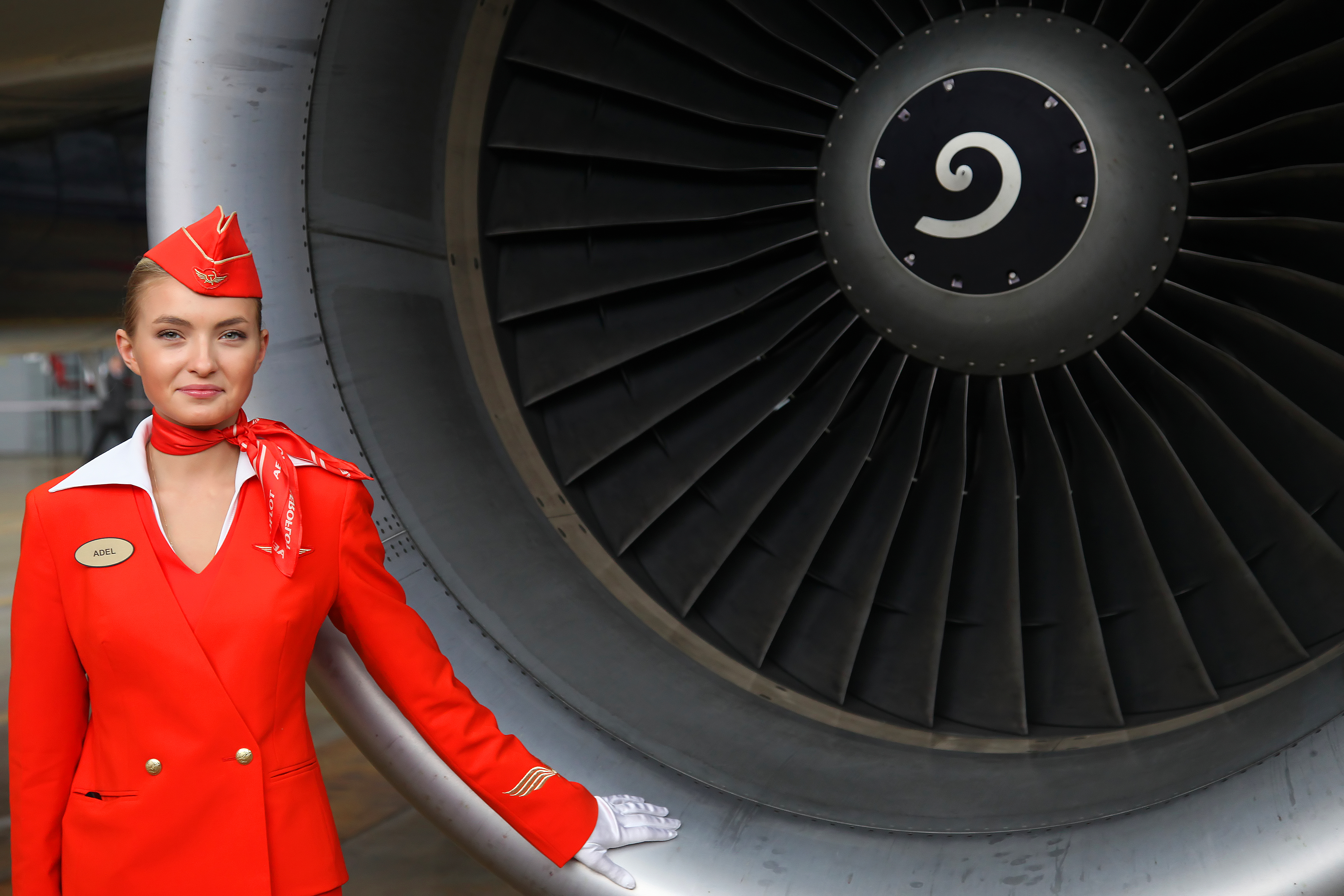 Unveiling of the Aeroflot Airbus A320-200 (VP-BZP) in a special livery promoting the 2014 Winter Olympics in Sochi